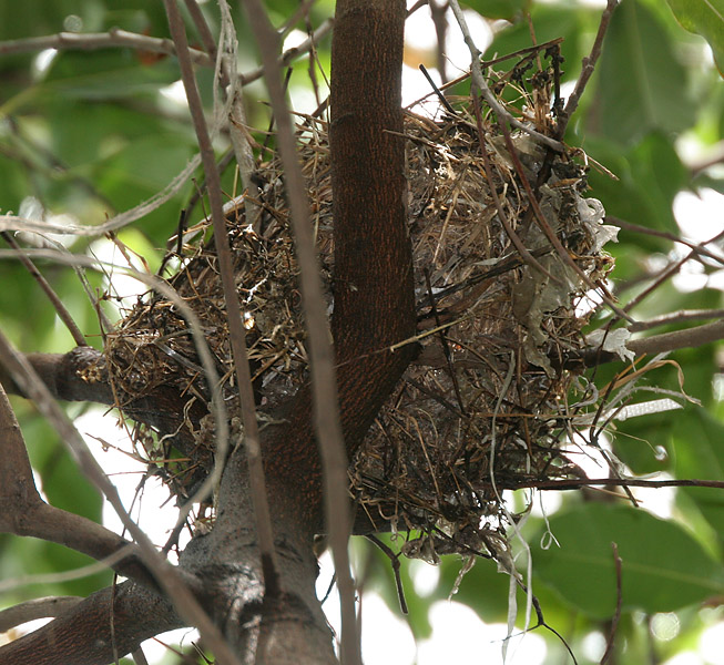 Long-tailed Shrike (Lanius schach) in Kolkata, West Bengal, India.